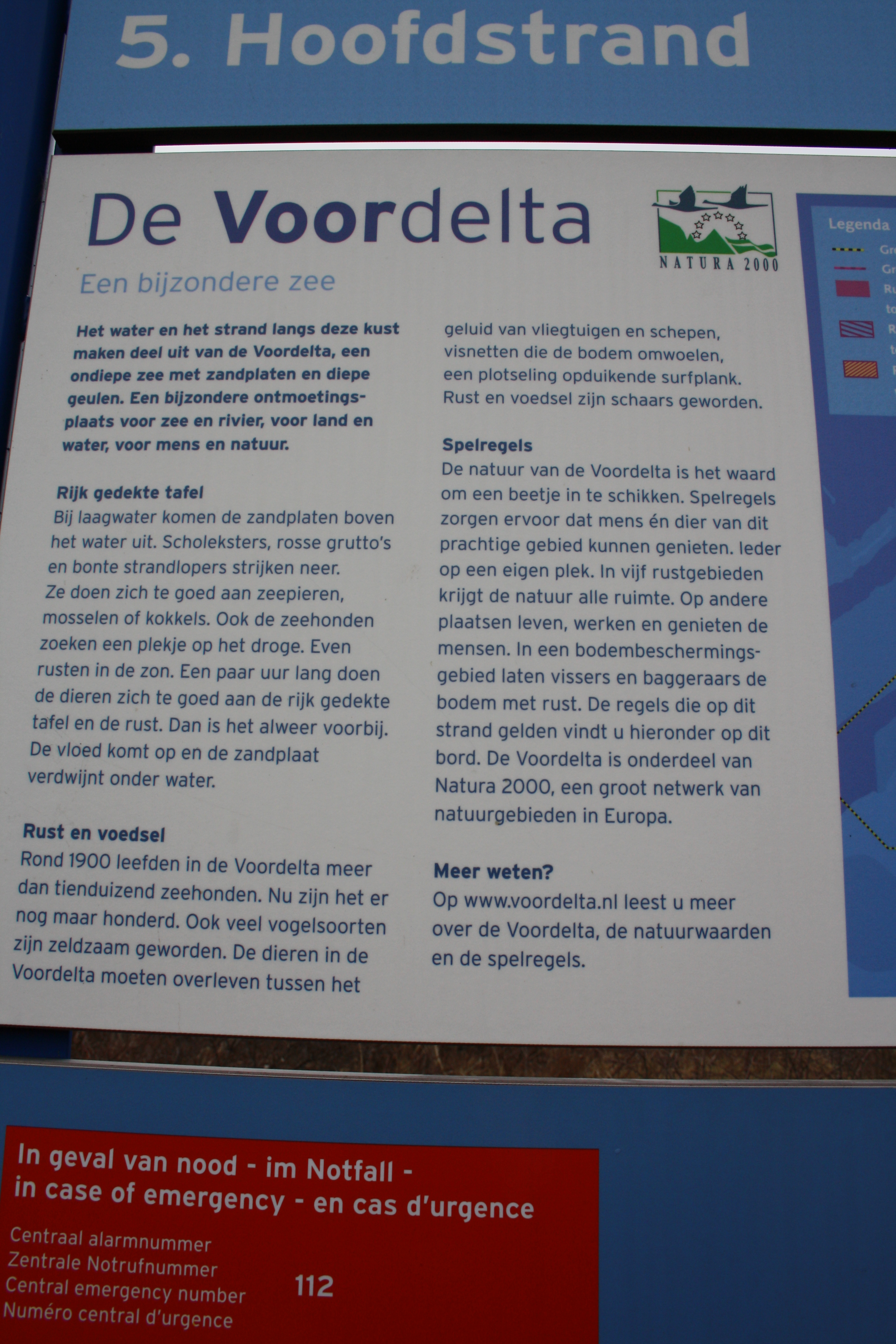 photo of information board at the coast of Kamperland, Netherlands. The "voordelta" is the place in the sea before the delta of the river Schelde, the delta of which can be completely close-shut in case of extreme flood by the "Delta Works". The voordelat is a shoal with sandbanks, birds, earless seals etc.